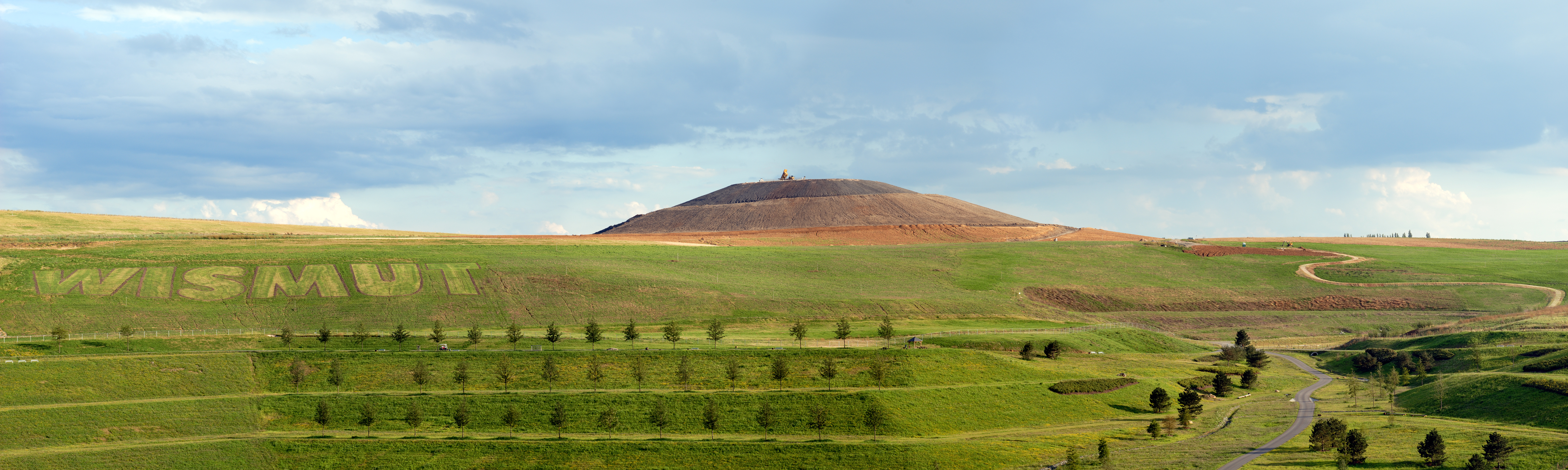 This image shows the "Neue Landschaft Ronneburg" in Germany with the "Schmirchauer Höhe". It is a six segment panoramic image.